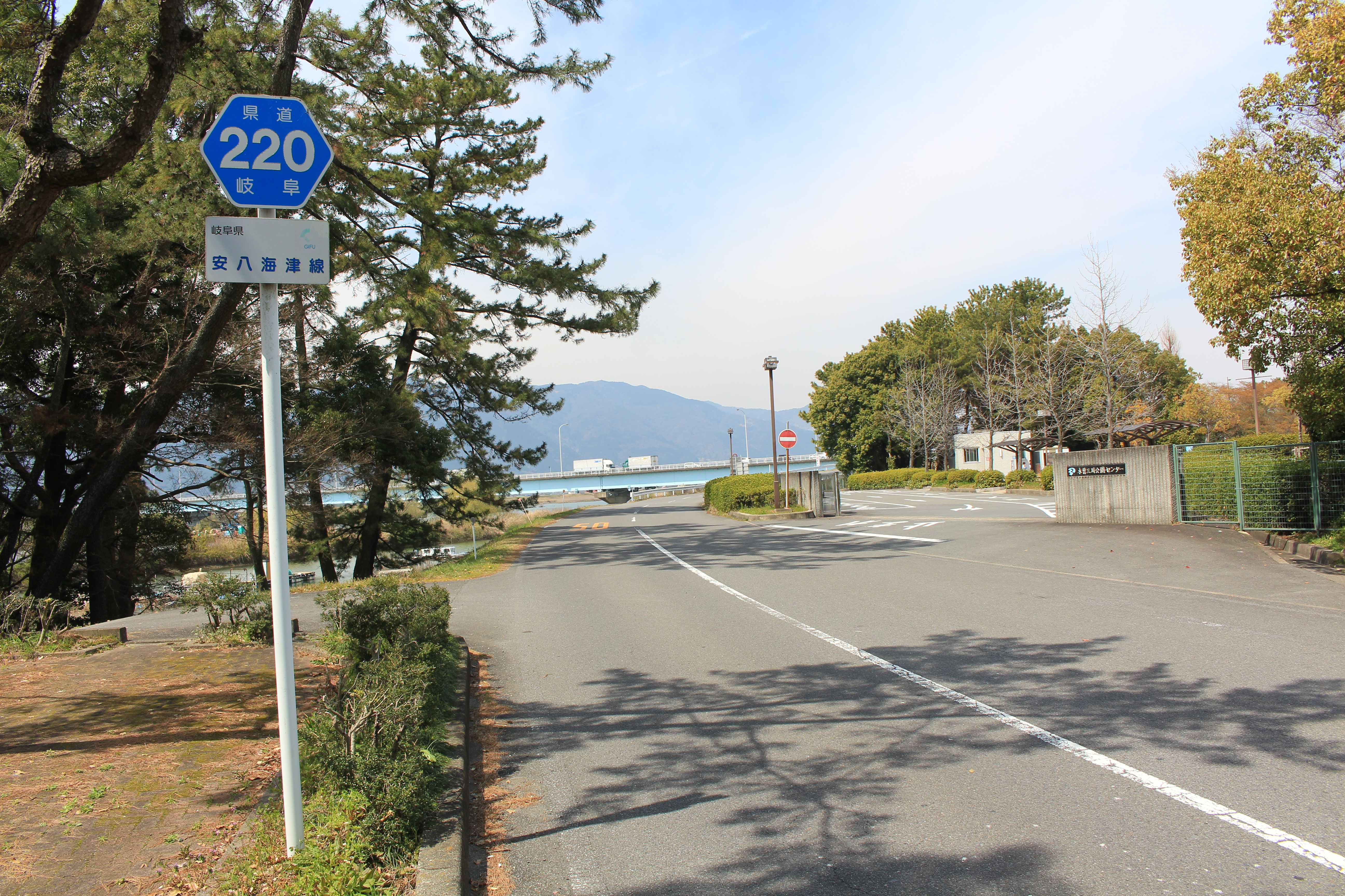 Gifu Prefectural Road Route 220 and Kiso Sansen Park Center in Aburajima, Kaizu, Gifu prefecture, Japan.